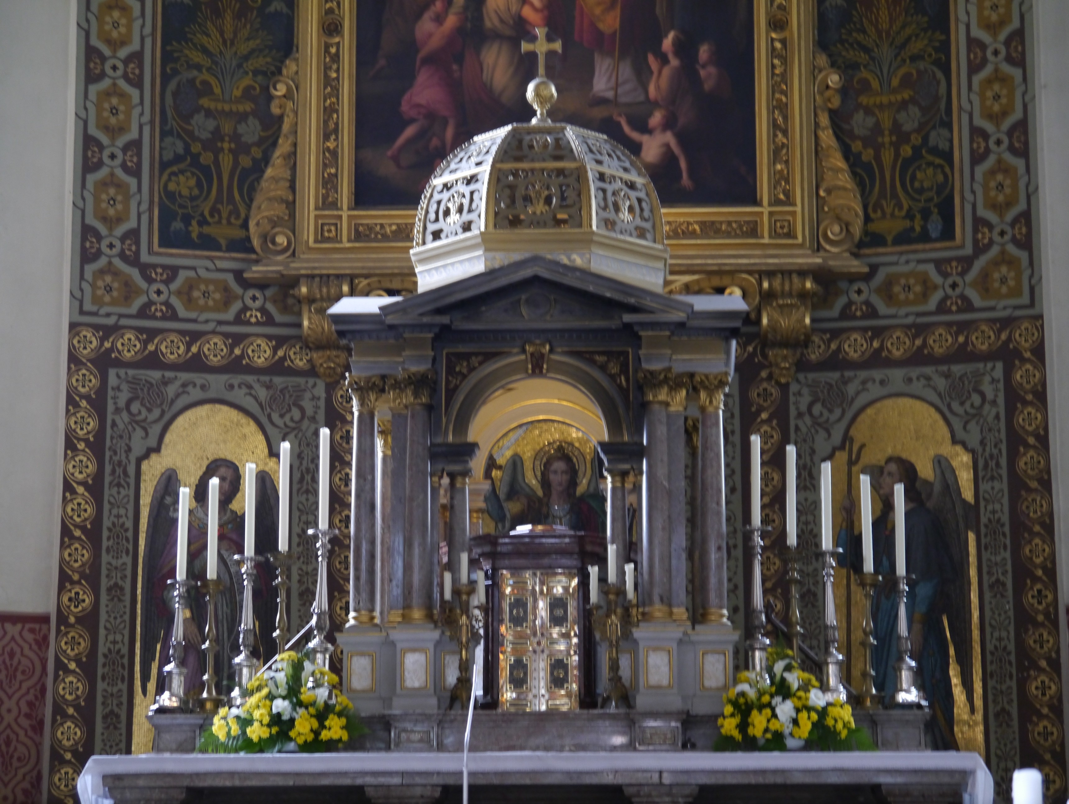 High Altar of St. Nicholas parish church, Bad Isch, Upper Austria